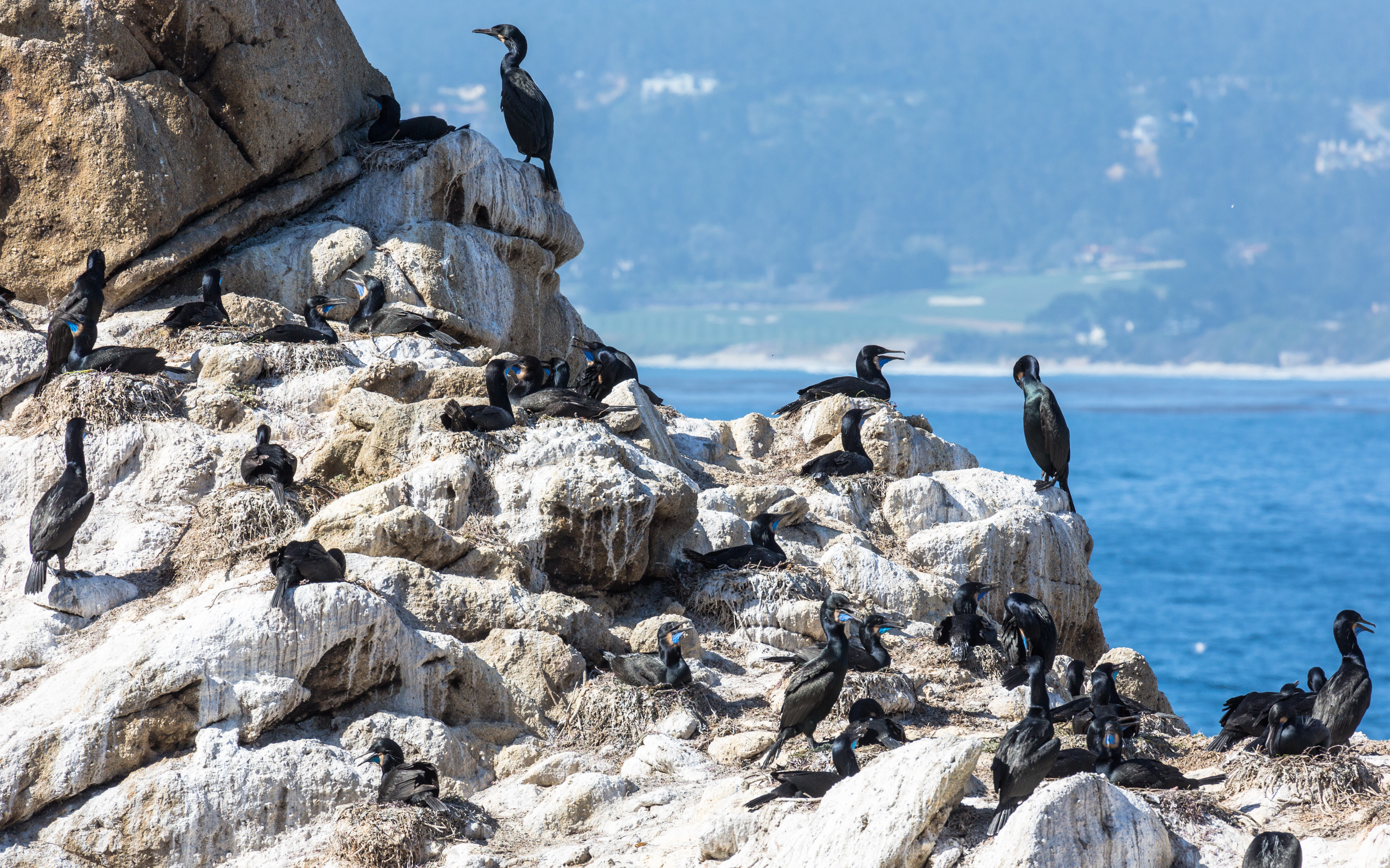 Phalacrocorax penicillatus (Brandt's Cormorant) colony on Point Lobos in California, United States.